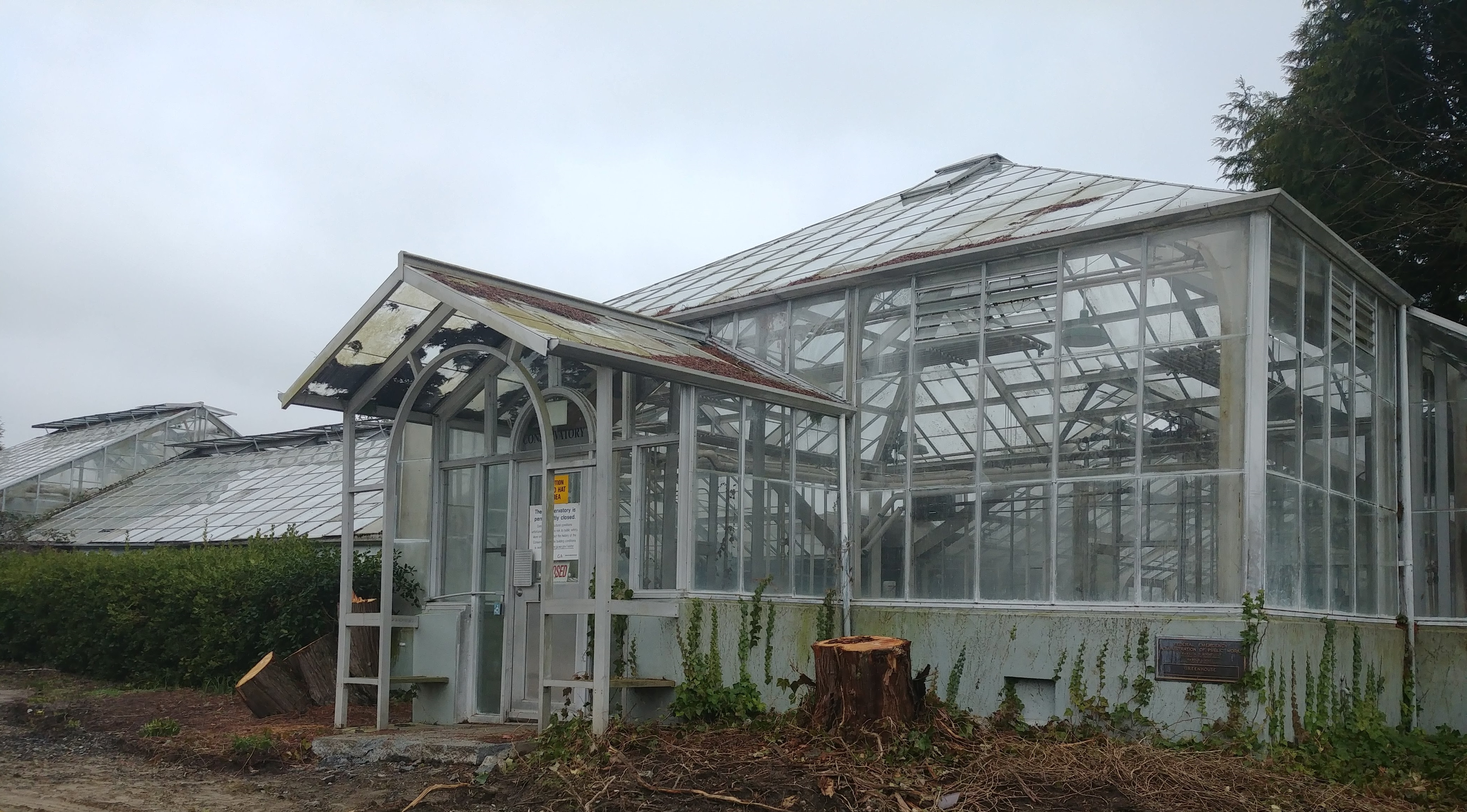 Washington State Capitol Conservatory, which has been closed to the public for some time. Plaque in lower right corner reads "Federal Emergency Administration of Public Works Greenhouse" with a 1930s date, probably 1939 when the building was constructed.